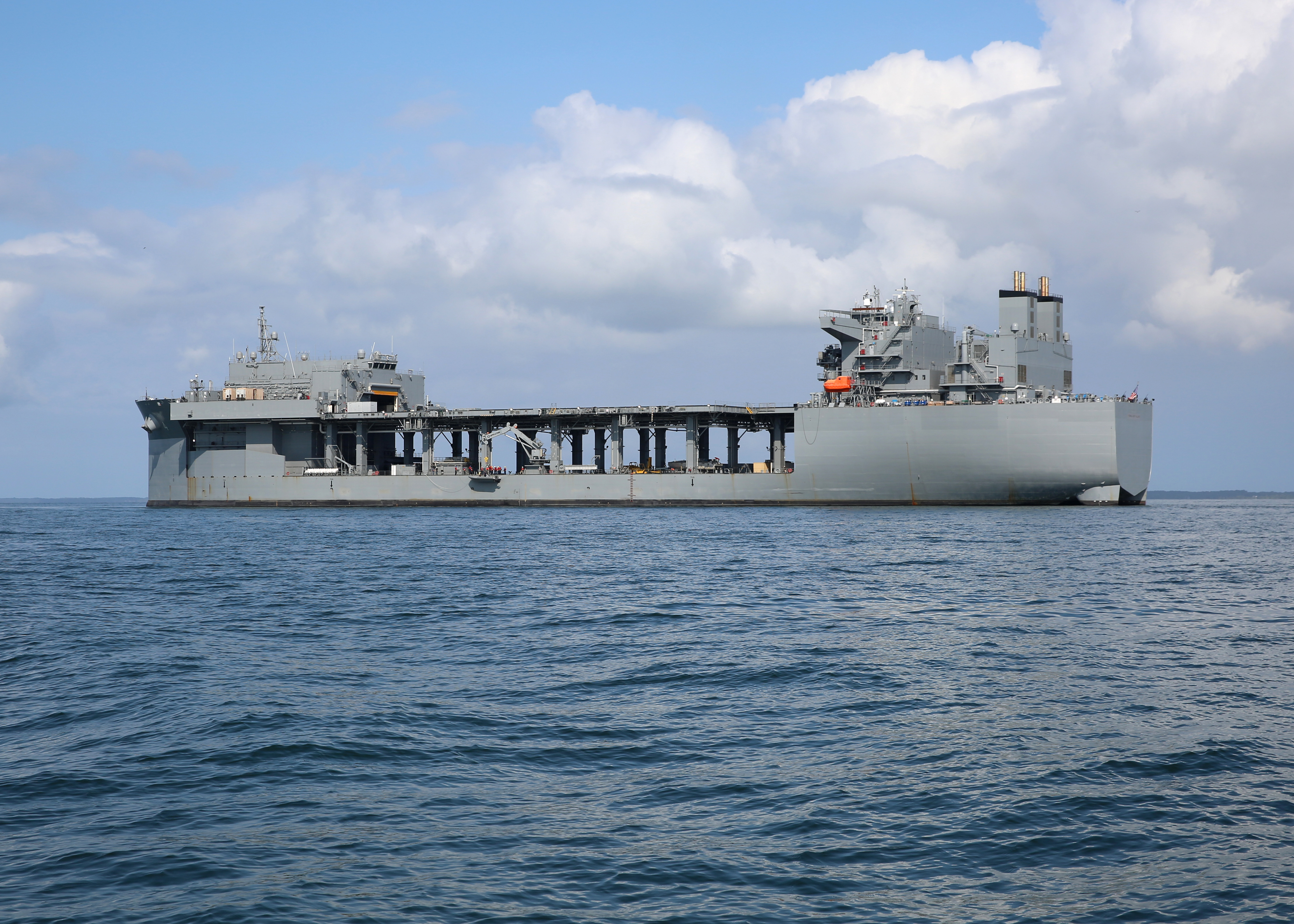 The U.S. Military Sealift Command expeditionary sea base USNS Hershel "Woody" Williams (T-ESB-4) at anchor in Chesapeake Bay (USA) on 15 September 2019 during mine countermeasure equipment testing.